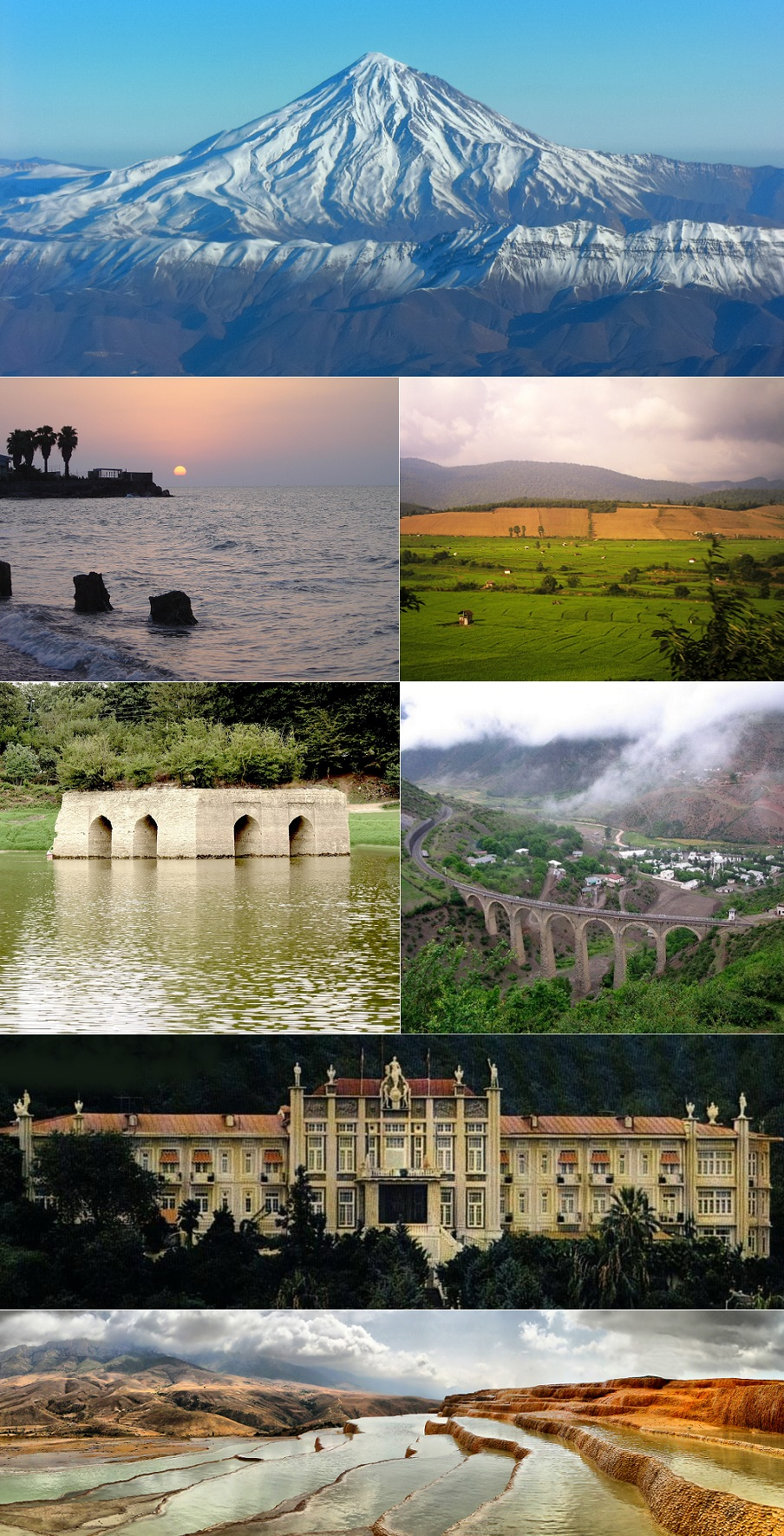 Mazandaran Province